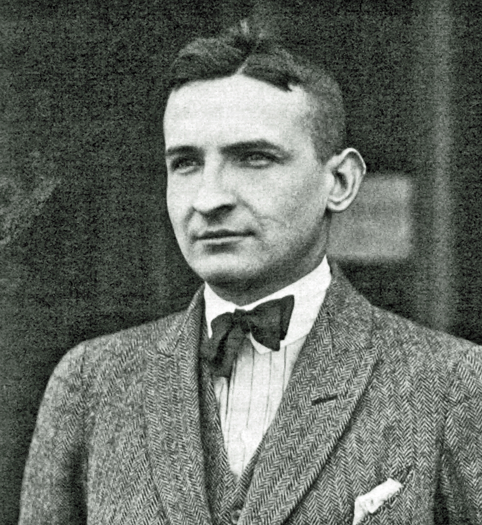 Portrait of Anthony Raab 1921, pilot